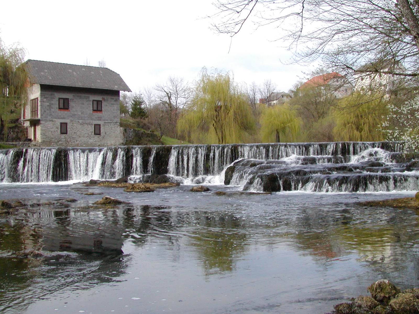 Tufa barrier in Krka river at Zagradec.